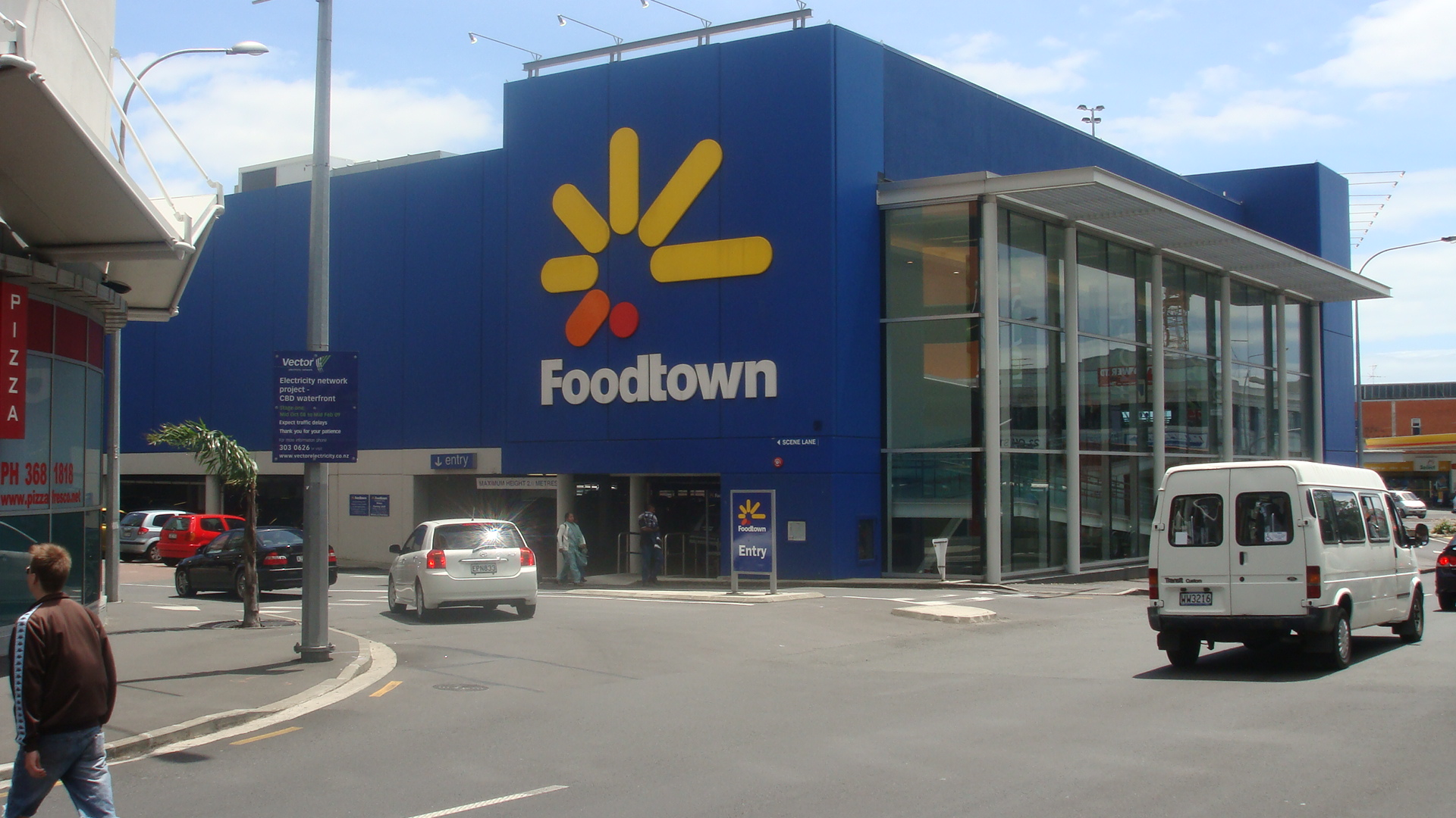 Foodtown supermarket, 76 Quay Street, Auckland Central, New Zealand. Shot taken from the middle of the road, Tangihua Street.